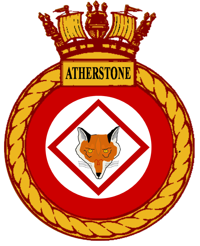 Depiction of ship's badge of HMS Atherstone (M38)